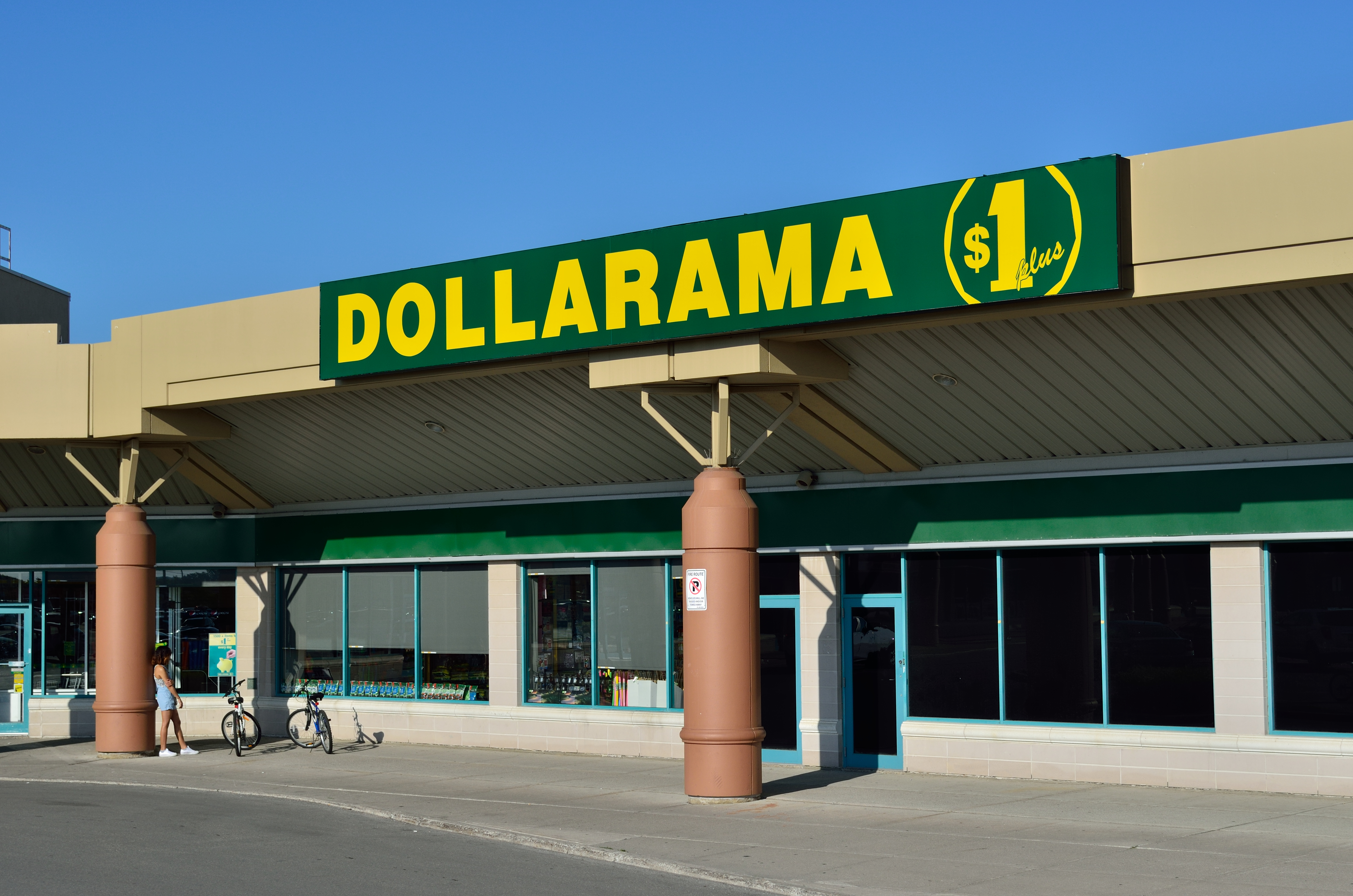 A Dollarama store in Richmond Hill, ON